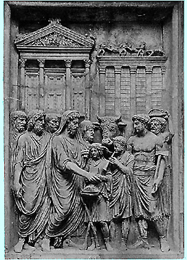 Emperor Marcus Aurelius (161-180 AD) and members of the Imperial family offer sacrifice in gratitude for success against Germanic tribes. In the backgrounds stands the Temple of Jupiter on the Capitolium (this is the only extant portrayal of this roman temple). Bas-relief from the Arch of Marcus Aurelius, Rome, now in the Capitoline Museum in Rome.